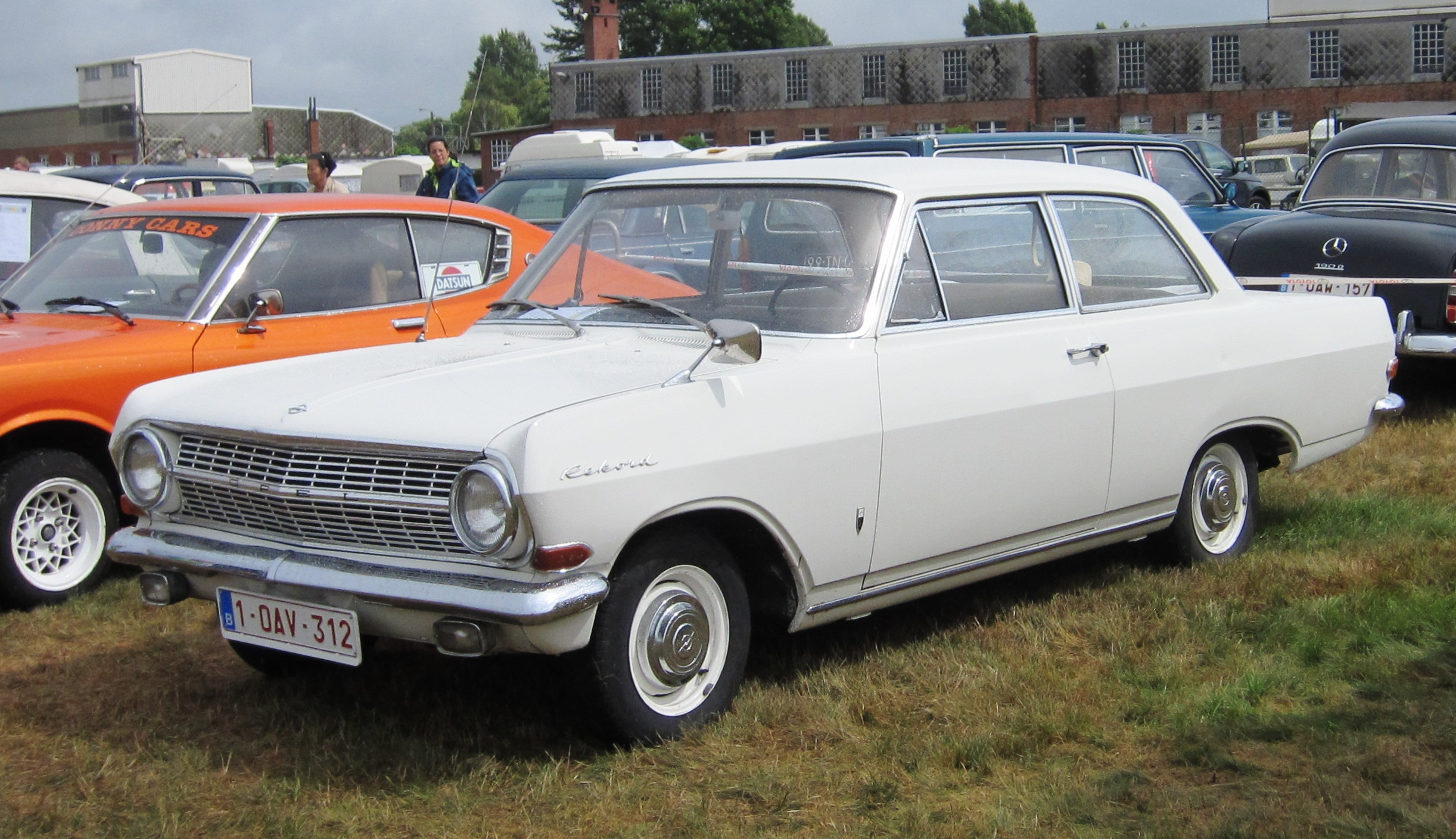 Opel Rekord A 2-door 2605cc Inline-6 (1964 or 1965)